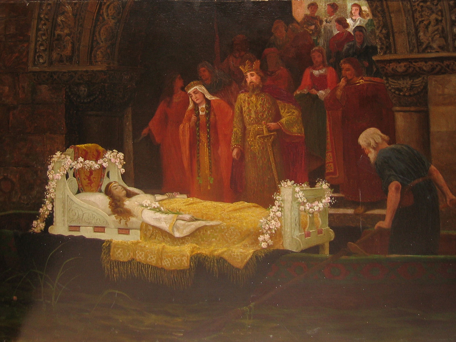 The Lady of Shalott reaches Camelot.